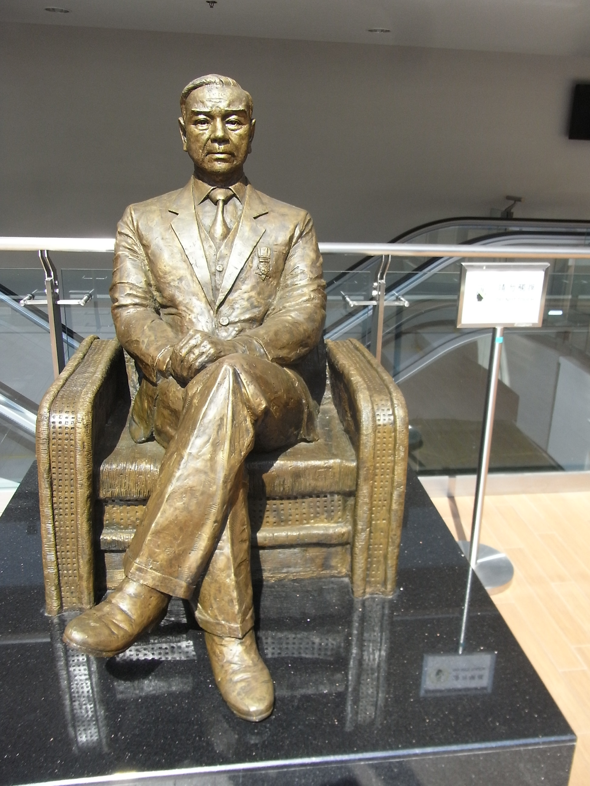 沙田 新界鄉議局大樓, Heung Yee Kuk Building, Shek Mun, Sha Tin, Hong Kong